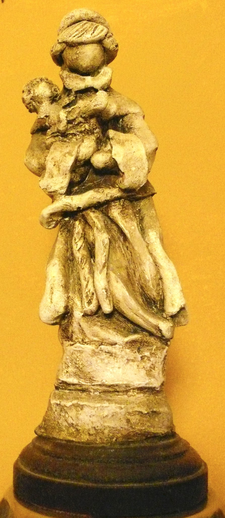 St. Anthony, made by the Portuguese ceramist Maria Sidónio